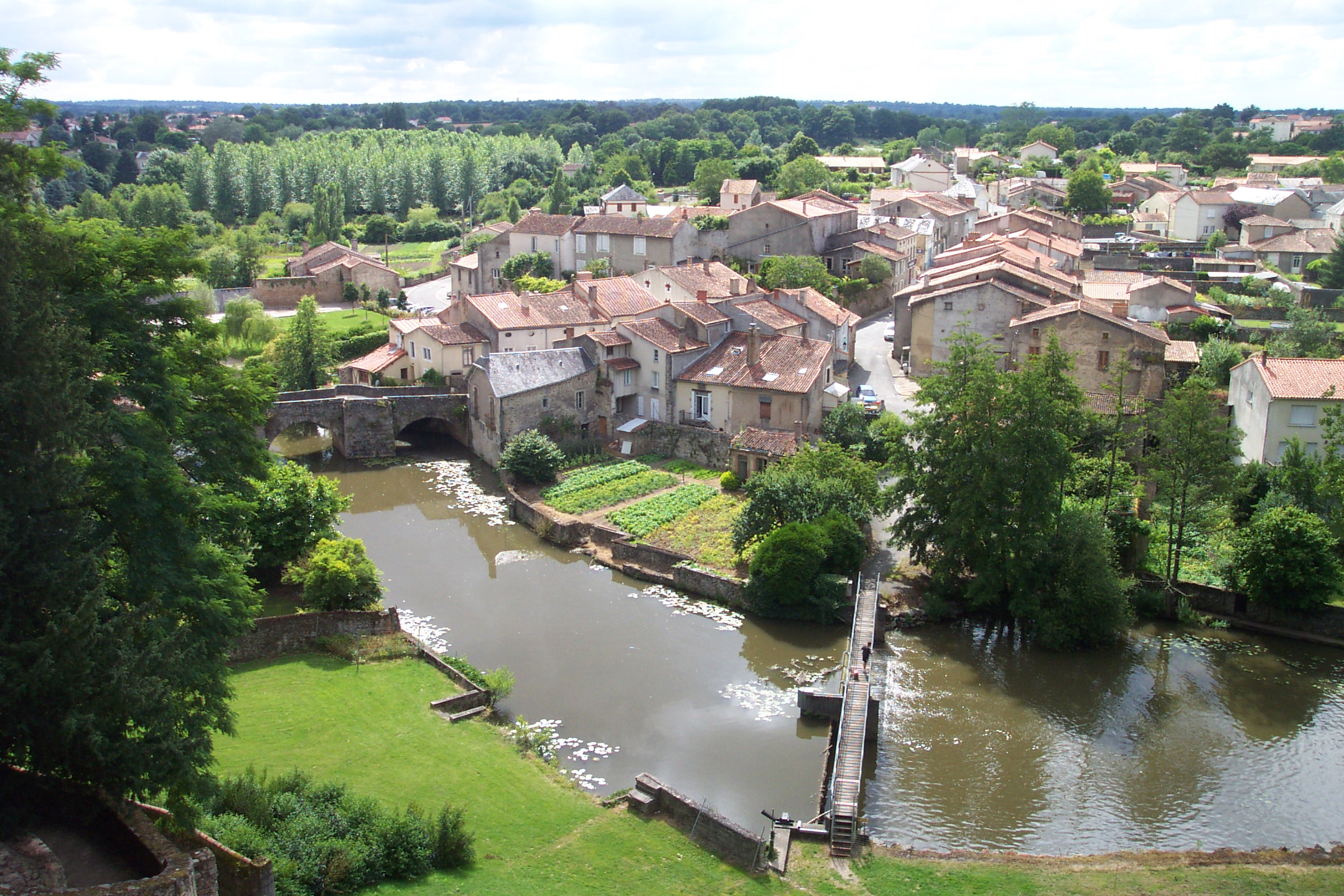 The Saint-Paul quarter of the French town of Parthenay, as viewed from the battlements of the town's citadel. The River Thouet is in the foreground. For more information, see the Wikipedia article Parthenay.